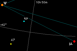 Position of 47 Ursae Majoris